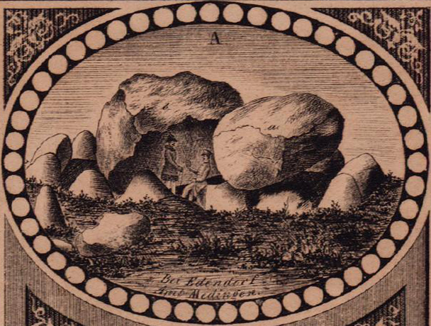 Megalithic tomb near Edendorf, Sprockhoff-No. 746